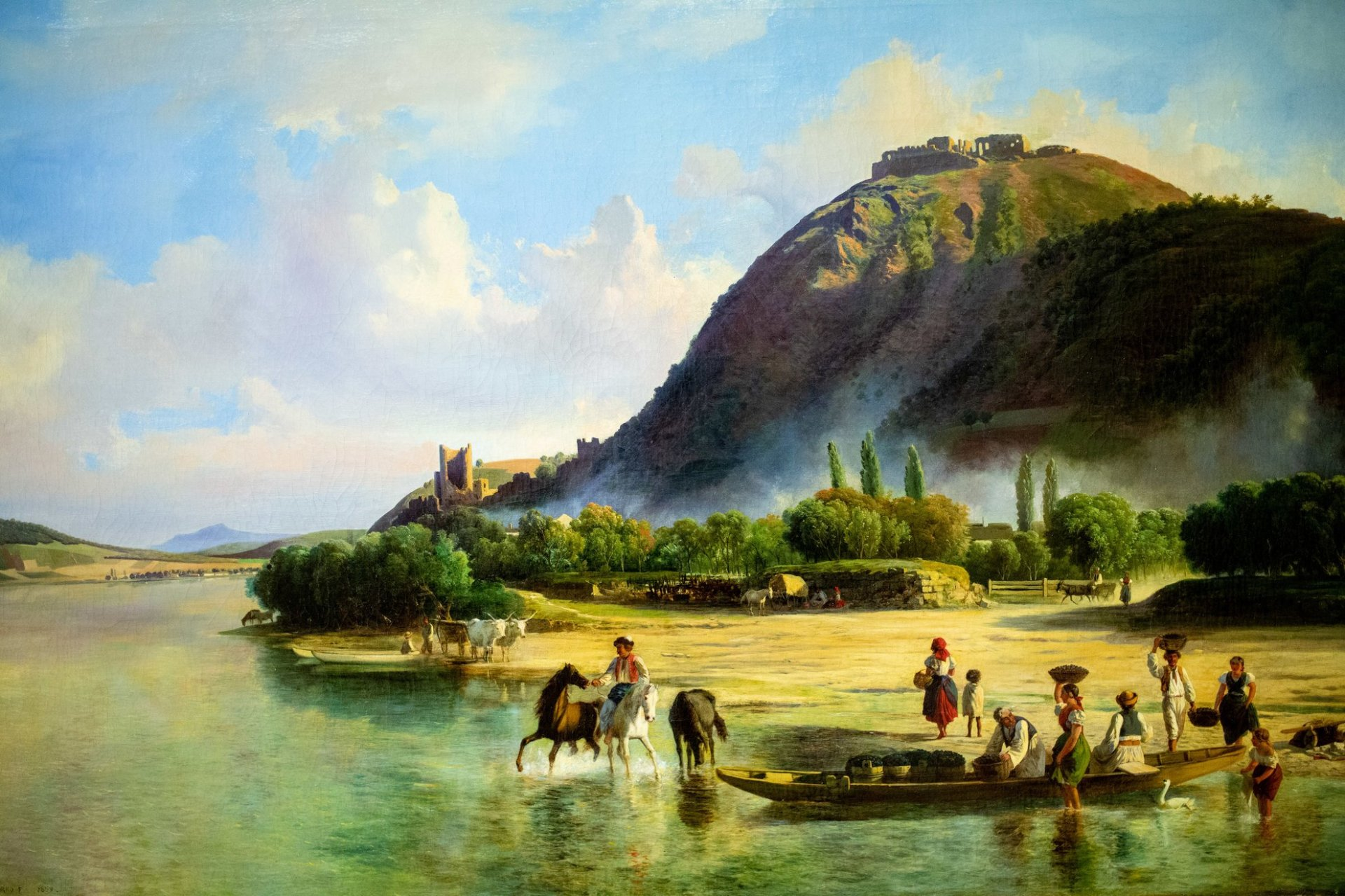 Ferenc Markó Visegrád